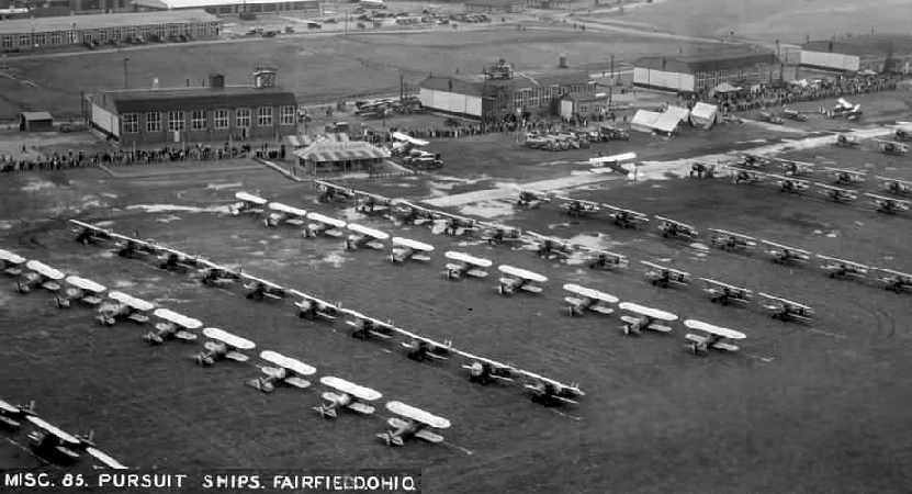 Fairfield Aviation General Supply Depot buildings and aircraft